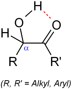 General chemical structure of acyloines